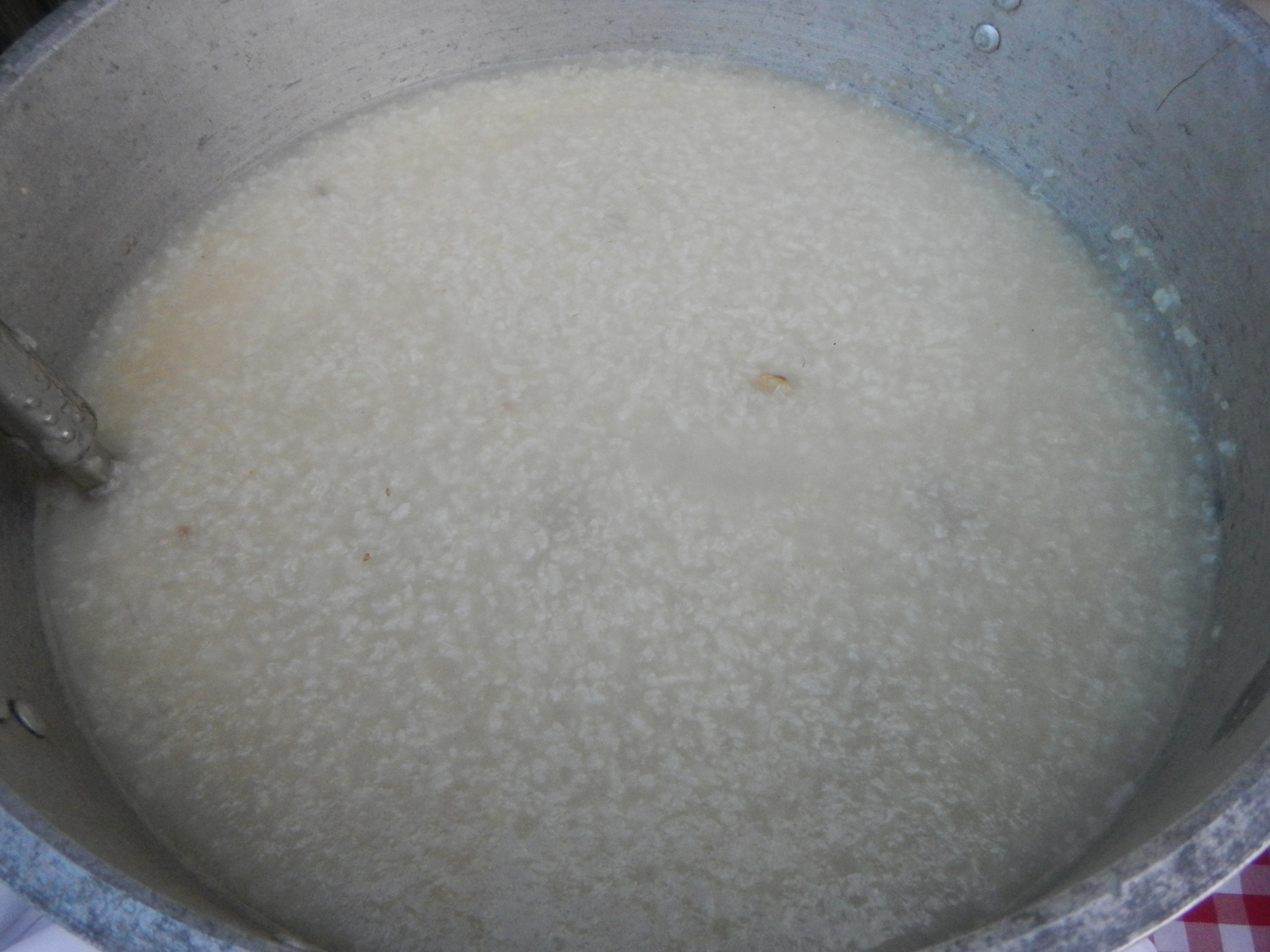 Beauty pageants in Pampanga Food displayed for sale in Pampanga Kapampangan cuisine Santa Rita de Cascia "Apung Dita" Monument (Eco-Park, San Isidro Gasak, Santa Rita, Pampanga) Inaugurated on December 2, 2017 on the 16th Duman Festival (Eco-Park, San Isidro Gasak, Santa Rita, Pampanga) Barangay San Isidro 15°0'28"N 120°36'45"E Gasak 15°0'56"N 120°36'33"E from San Vicente 14°59'51"N 120°36'41"E Santa Rita, Pampanga (Note: Judge Florentino Floro, the owner, to repeat, Donor Florentino Floro of all these photos hereby donate gratuitously, freely and unconditionally all these photos to and for Wikimedia Commons, exclusively, for public use of the public domain, and again without any condition whatsoever).